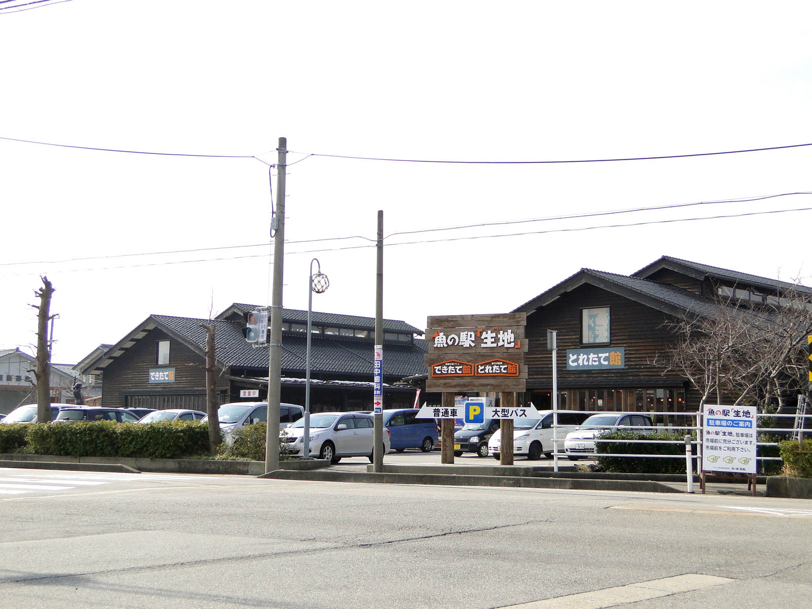 Sakana no Eki IKUJI